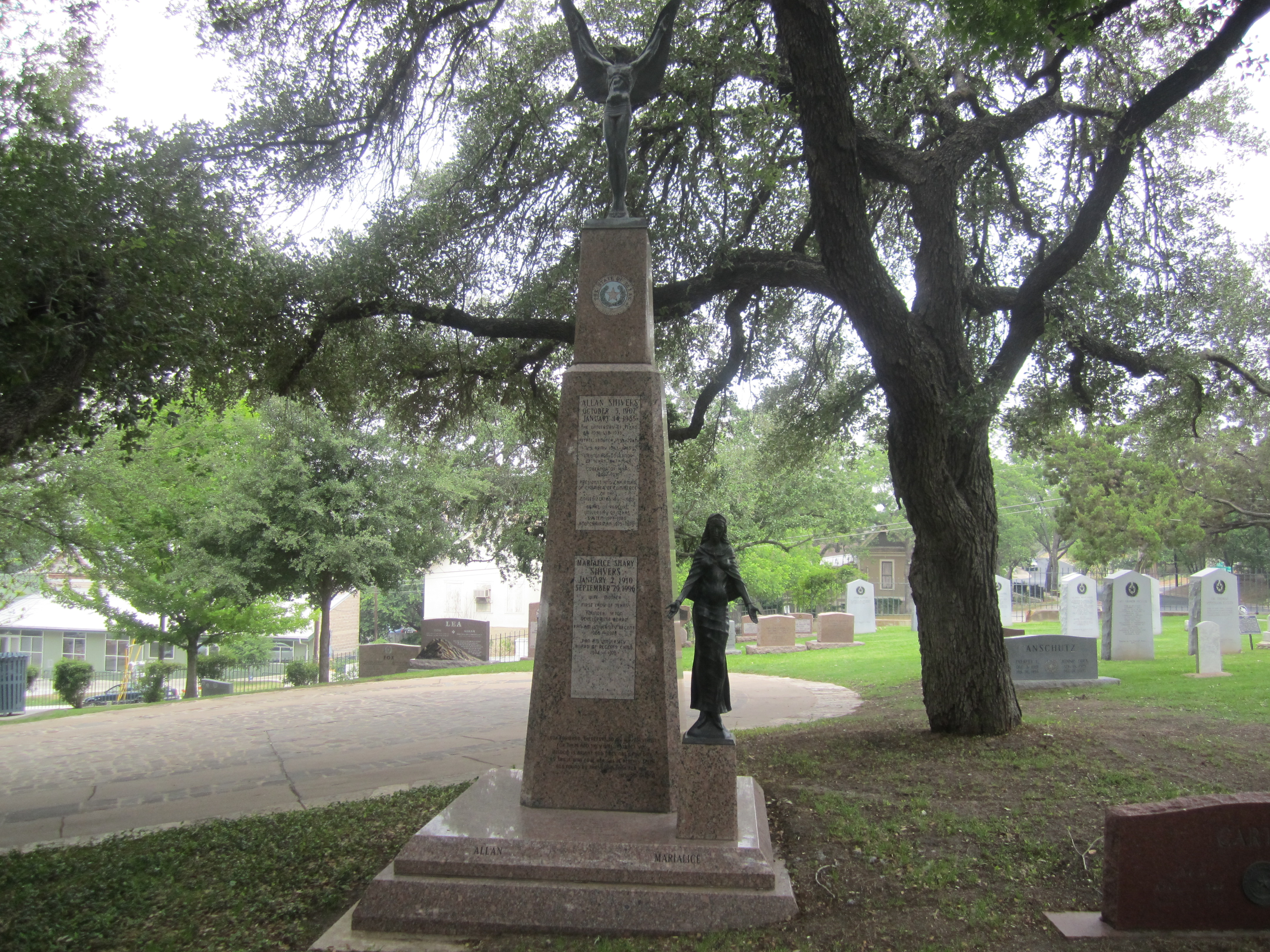 I took photo at TX State Cemetery in Austin with Canon camera. It is the Allan Shivers grave monument.